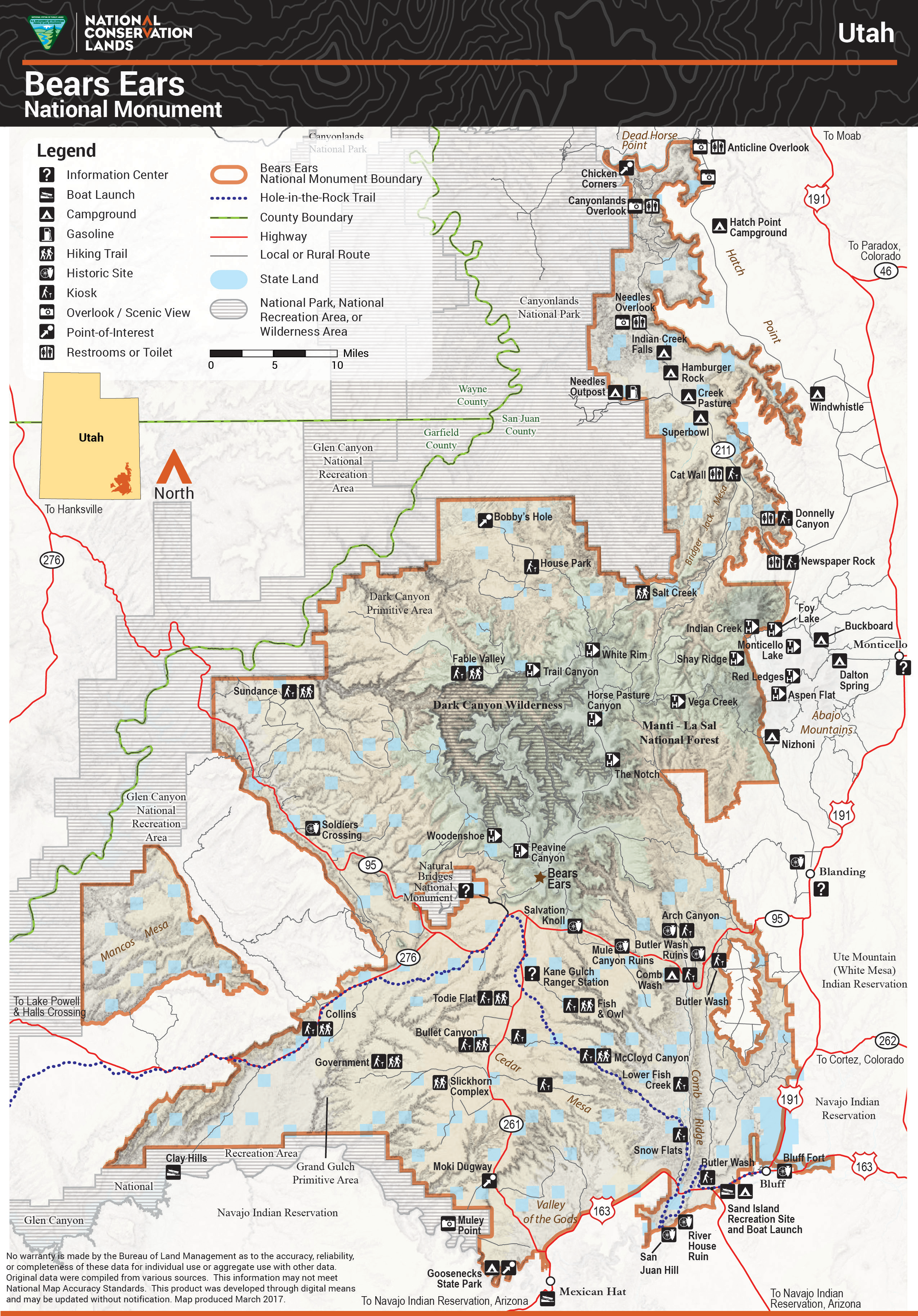 Bureau of Land Management (BLM) map of Bears Ears National Monument, Utah, United States - the original boundaries as defined in December 2016.